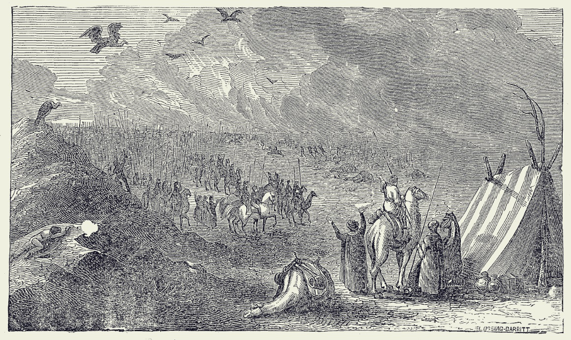 The lost army of Cambyses II according to a XIX century engraving.